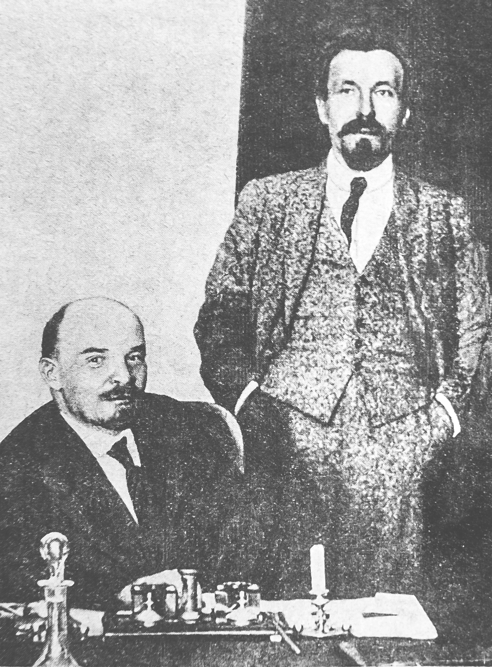 Alexei Rykov and Vladimir Lenin. Photo date Oct 3, 1922